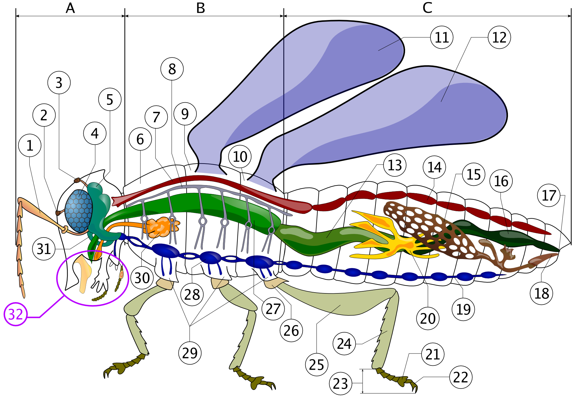 Insect anatomy scheme A- Head B- Thorax C- Abdomen antenna ocelli (lower) ocelli (upper) compound eye brain (cerebral ganglia) prothorax dorsal artery tracheal tubes (trunk with spiracle) mesothorax metathorax first wing second wing mid-gut (stomach) heart ovary hind-gut (intestine, rectum & anus) anus vagina nerve chord (abdominal ganglia) Malpighian tubes pillow claws tarsus tibia femur trochanter fore-gut (crop, gizzard) thoracic ganglion coxa salivary gland subesophageal ganglion mouthparts